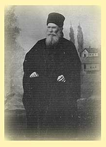 Schema-monk Illarion, the creator of imiaslavie concept. Before 1912.